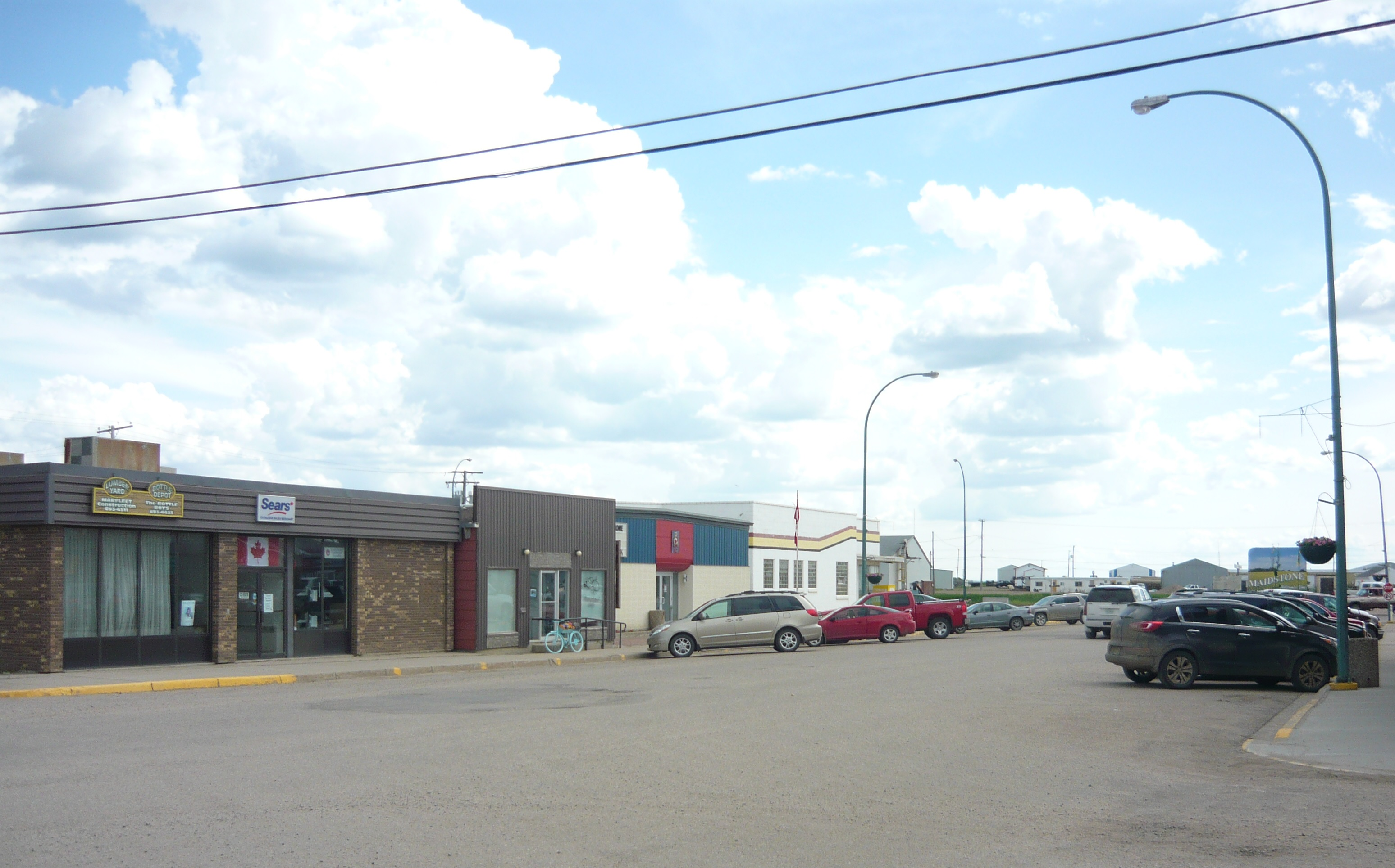 Looking south on Main Street from 1st Avenue, Village of Maidstone, Saskatchewan, Canada.